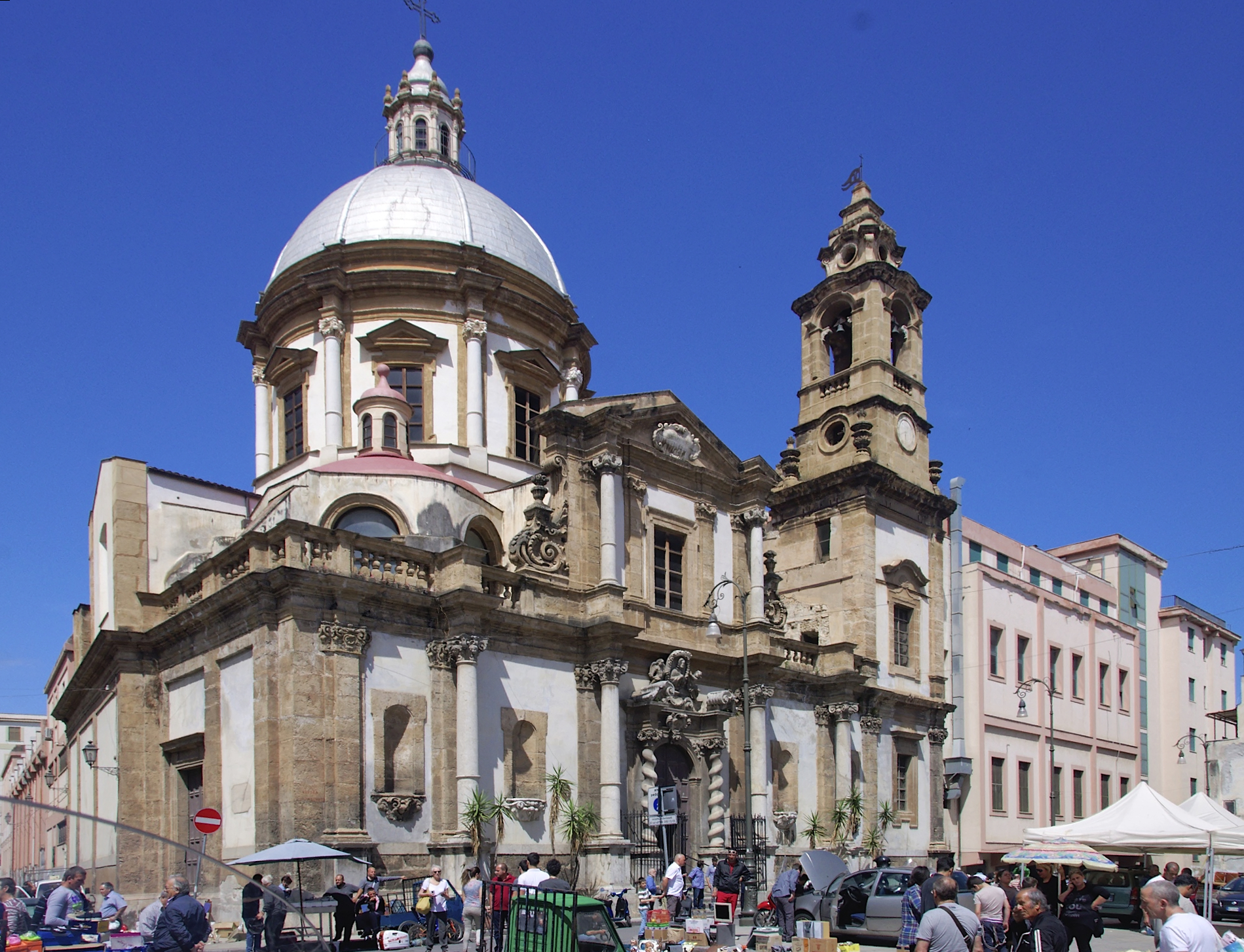 Front.